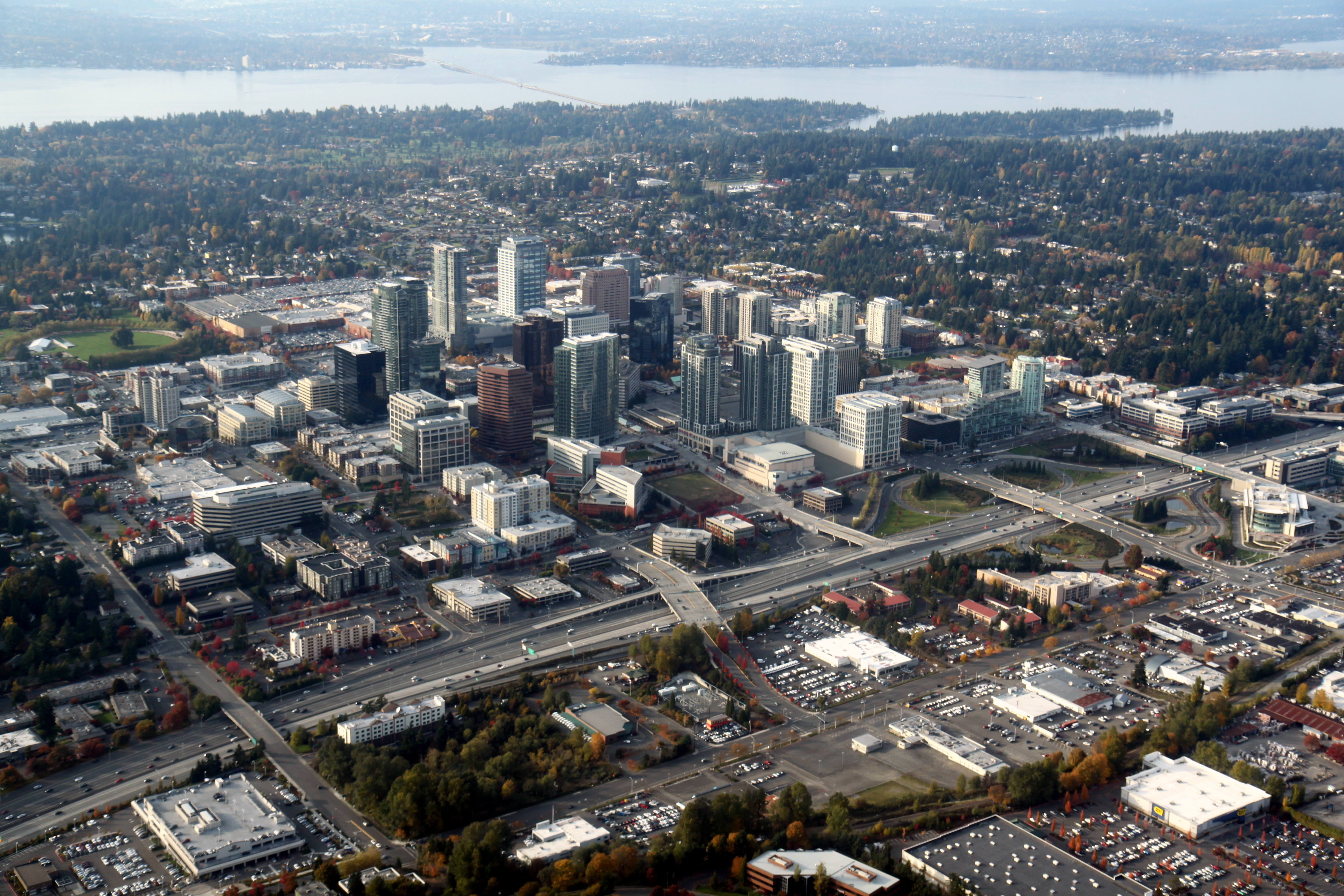 An aerial view of Bellevue, Washington seen against the backdrop of Lake Washington.